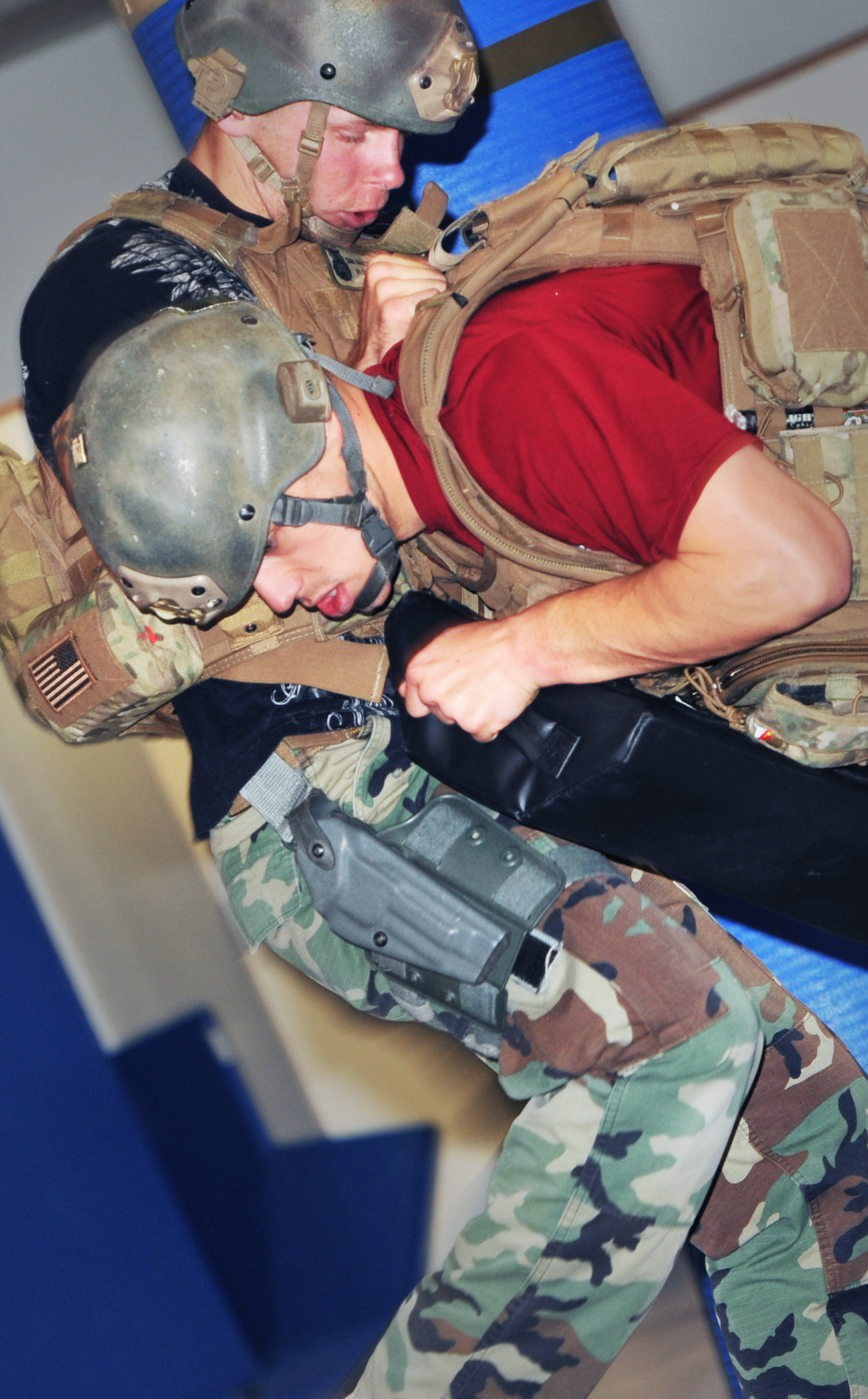 Security forces members from the 5th Bomb Wing and 91st Missile Wing, participated in a week-long Krav Maga Instructor training seminar at Minot Air Force Base, N.D. Krav Maga is a simple, effective self-defense system that emphasizes instinctive movements, practical techniques, and realistic training scenarios.